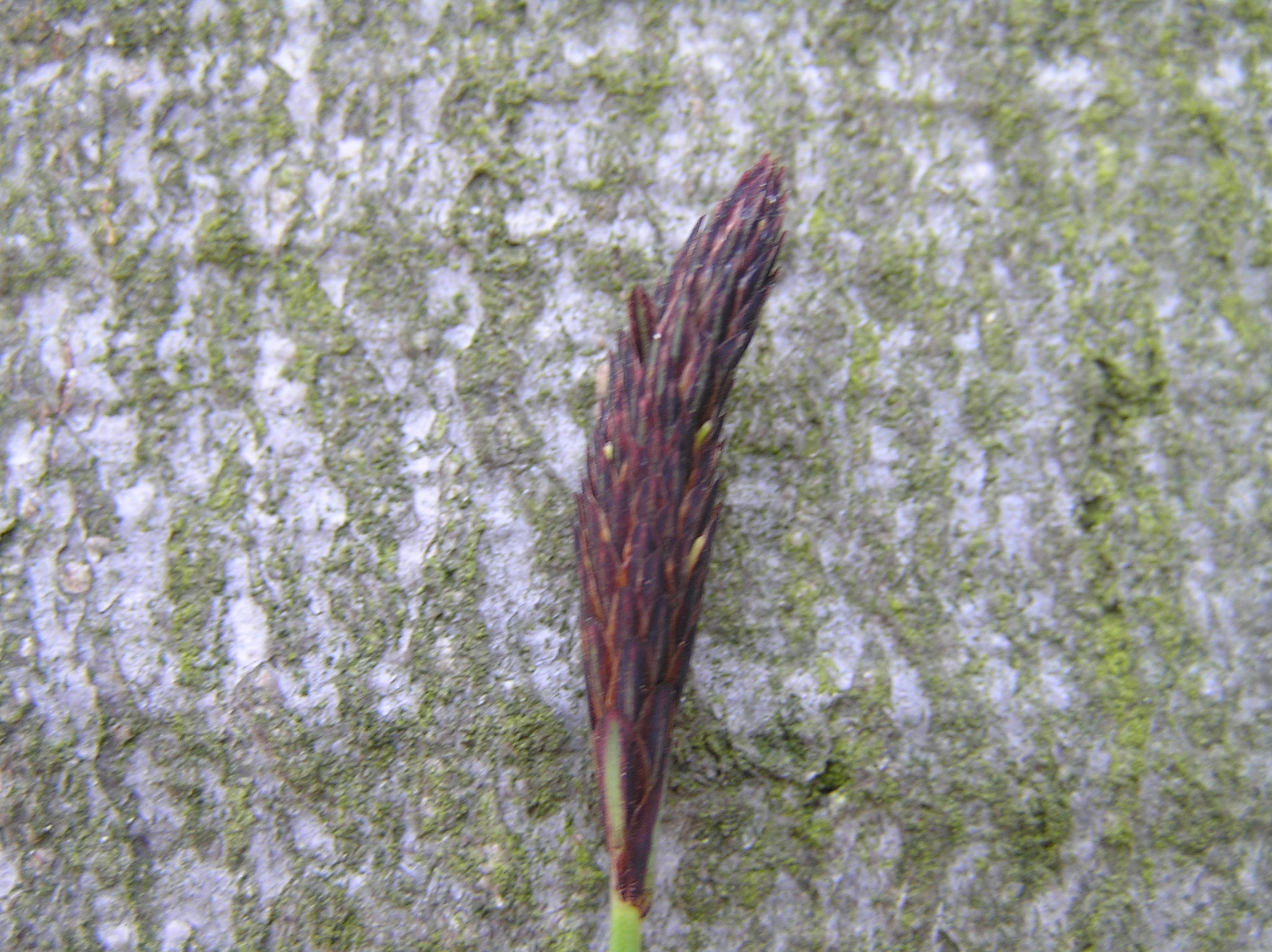 Carex pilosa, between Choceň and Brandýs nad Orlicí, Czech Republic